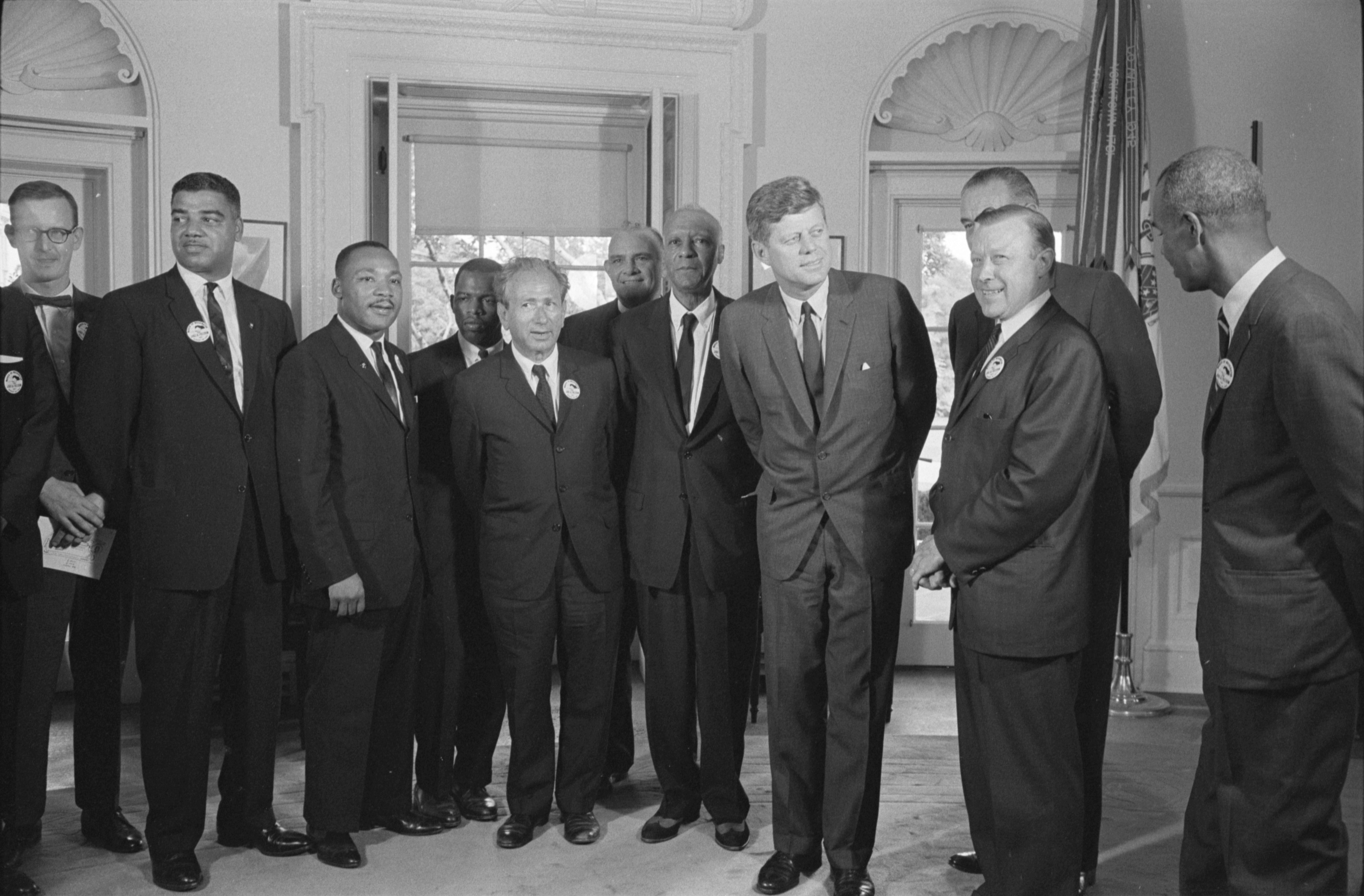 Photograph shows (left to right): Mathew Ahmann (National Catholic Conference for Interracial Justice); Whitney Young (National Urban Leage); Martin Luther King, Jr. (SCLC); John Lewis (SNCC); Rabbi Joachim Prinz (American Jewish Congress); Reverend Eugene Carson Blake (United Presbyterian Church); A. Philip Randolph; President John F. Kennedy; Walter Reuther (labor leader), with Vice President Lyndon Johnson partially visible behind him; and Roy Wilkins (NAACP). Not shown: Willard Wirtz (Secretary of Labor); Floyd McKissick (CORE).